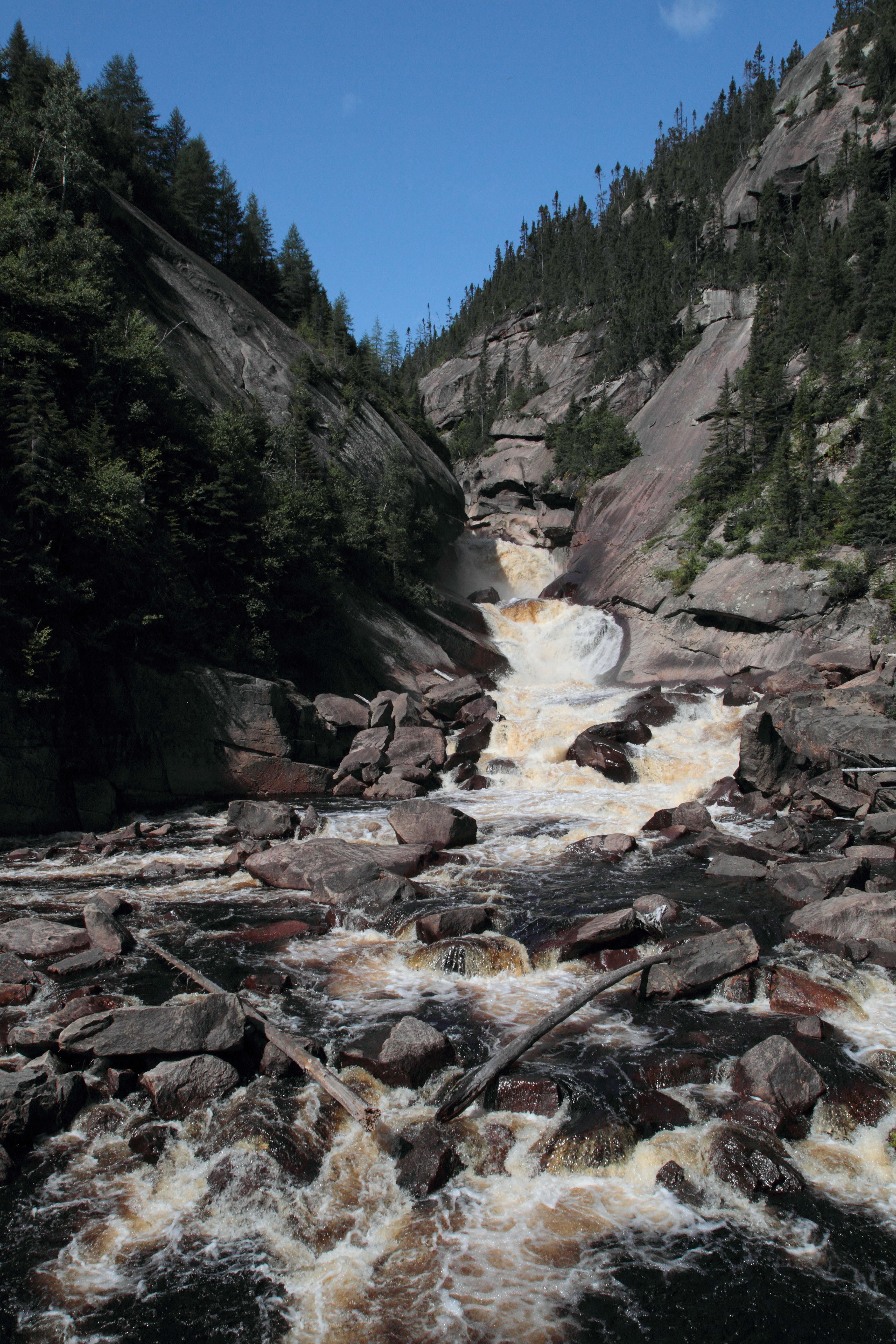 MacDonald falls on MacDonald river, Port-Cartier-Sept-Îles Wildlife Preserve, Quebec, Canada